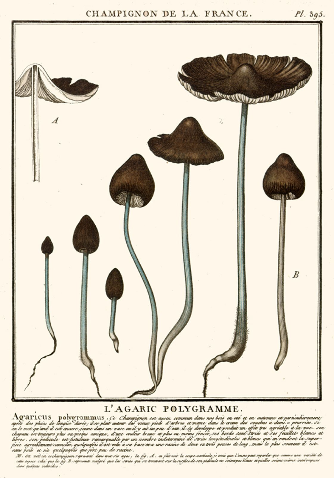 Picture of the mushroom Agaricus polygramma, now known as Mycena polygramma (Bull.) Gray.